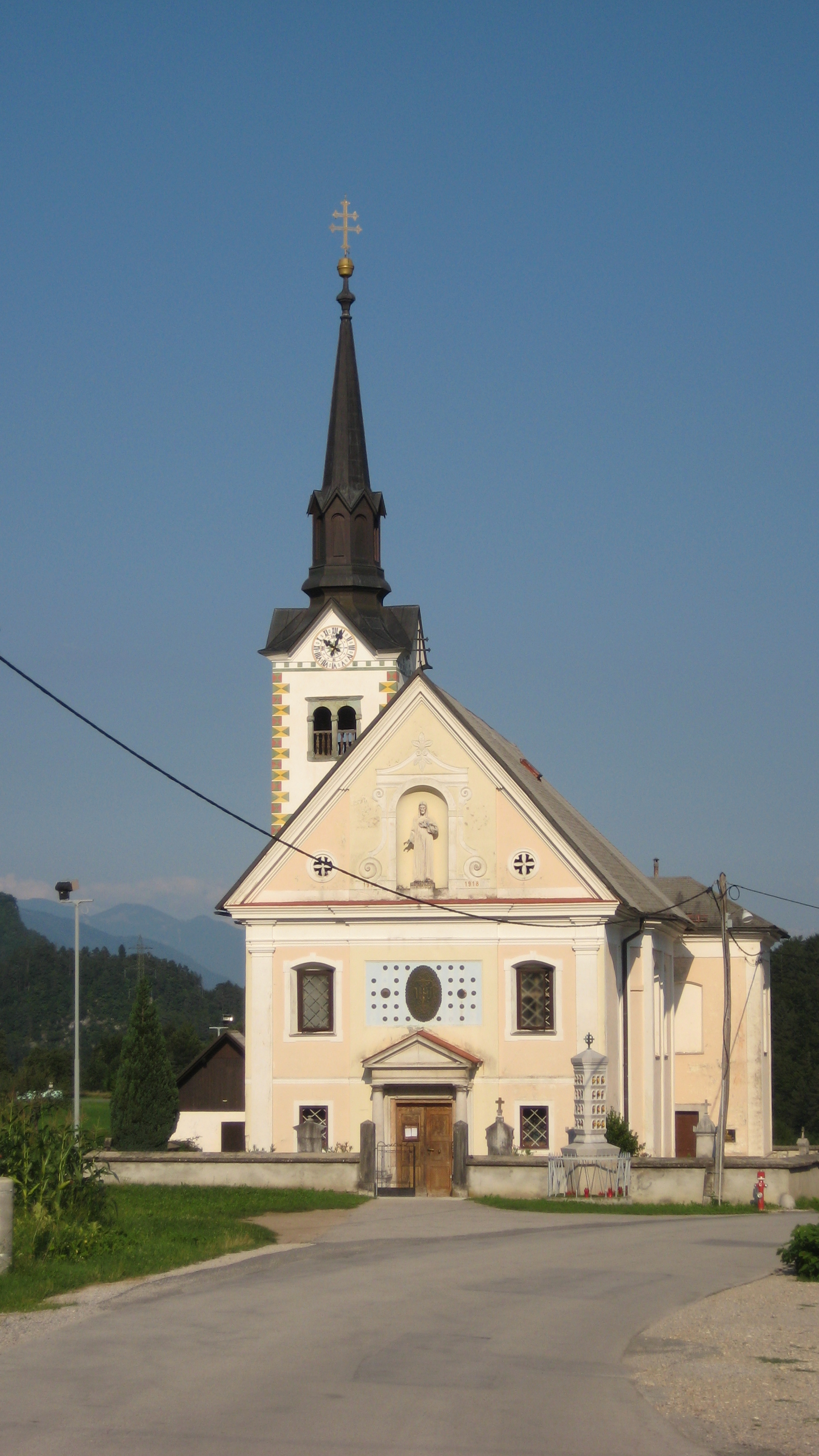 Bohinjska Bela, village in Slovenia. Parish church of St. Marjeta